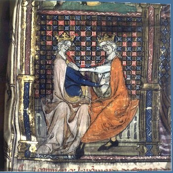 Miniature from le Roman d’Éneas (bottom left of the six), ms. 60 of the BnF, f. 148r